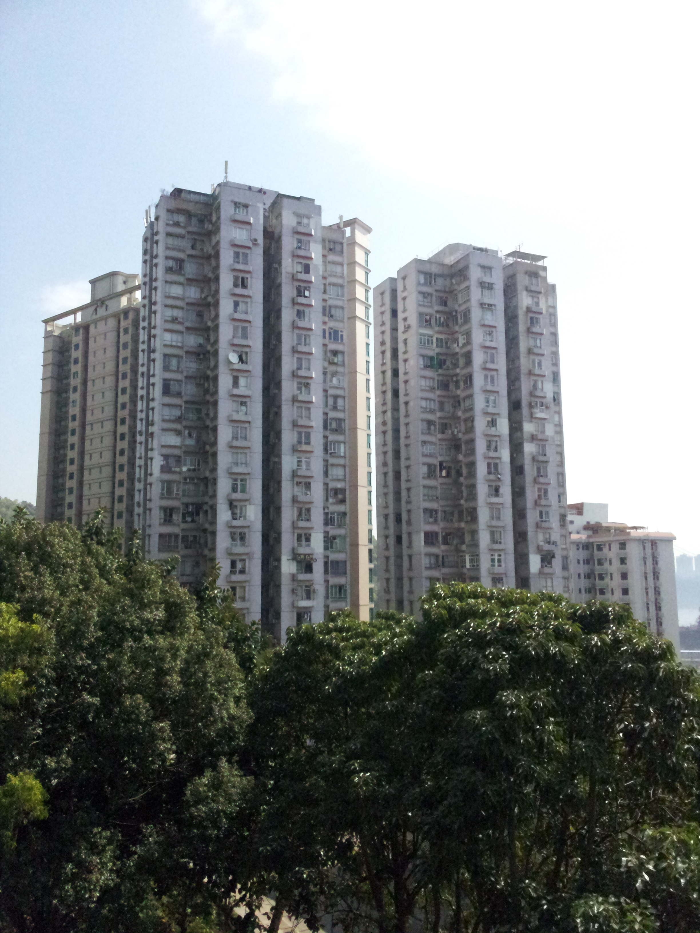 Just what the title says. WikiLink